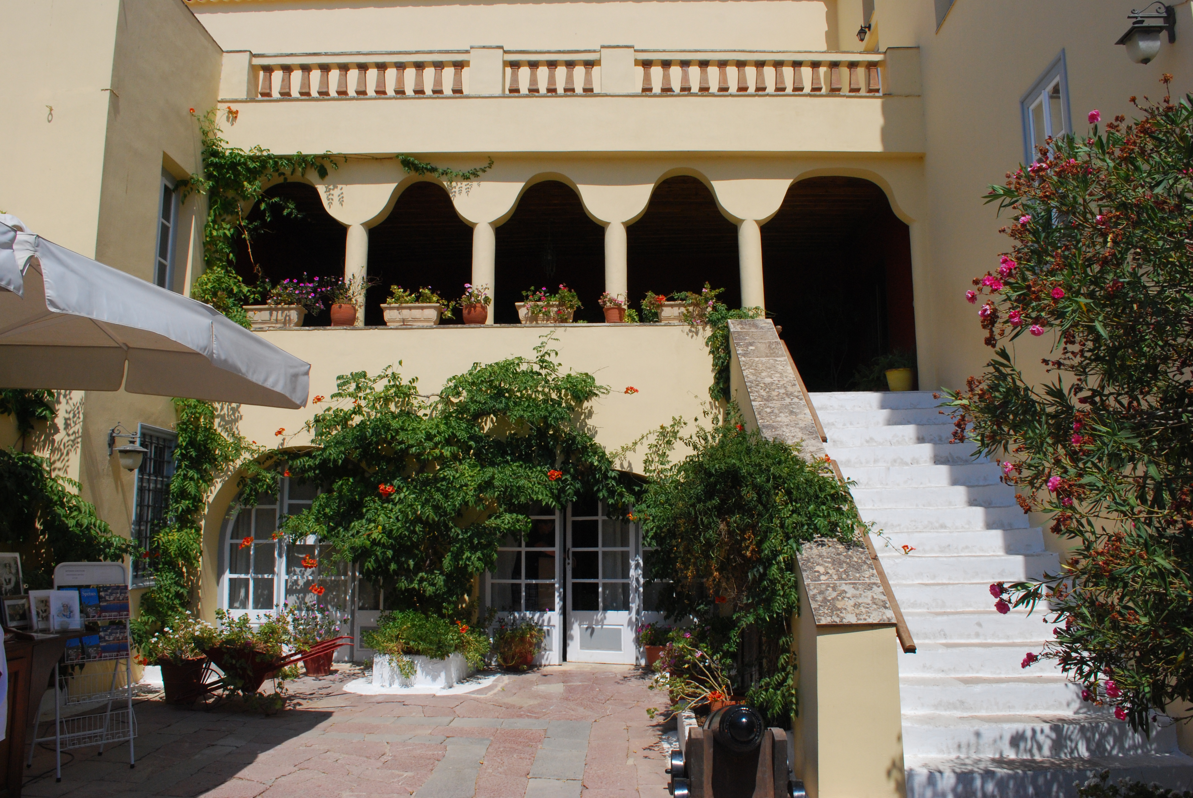 House of Laskarina Bouboulina, in Spetses.